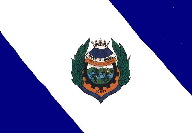 Flags of the city of Três Arroios, Rio Grande do Sul, Brazil.